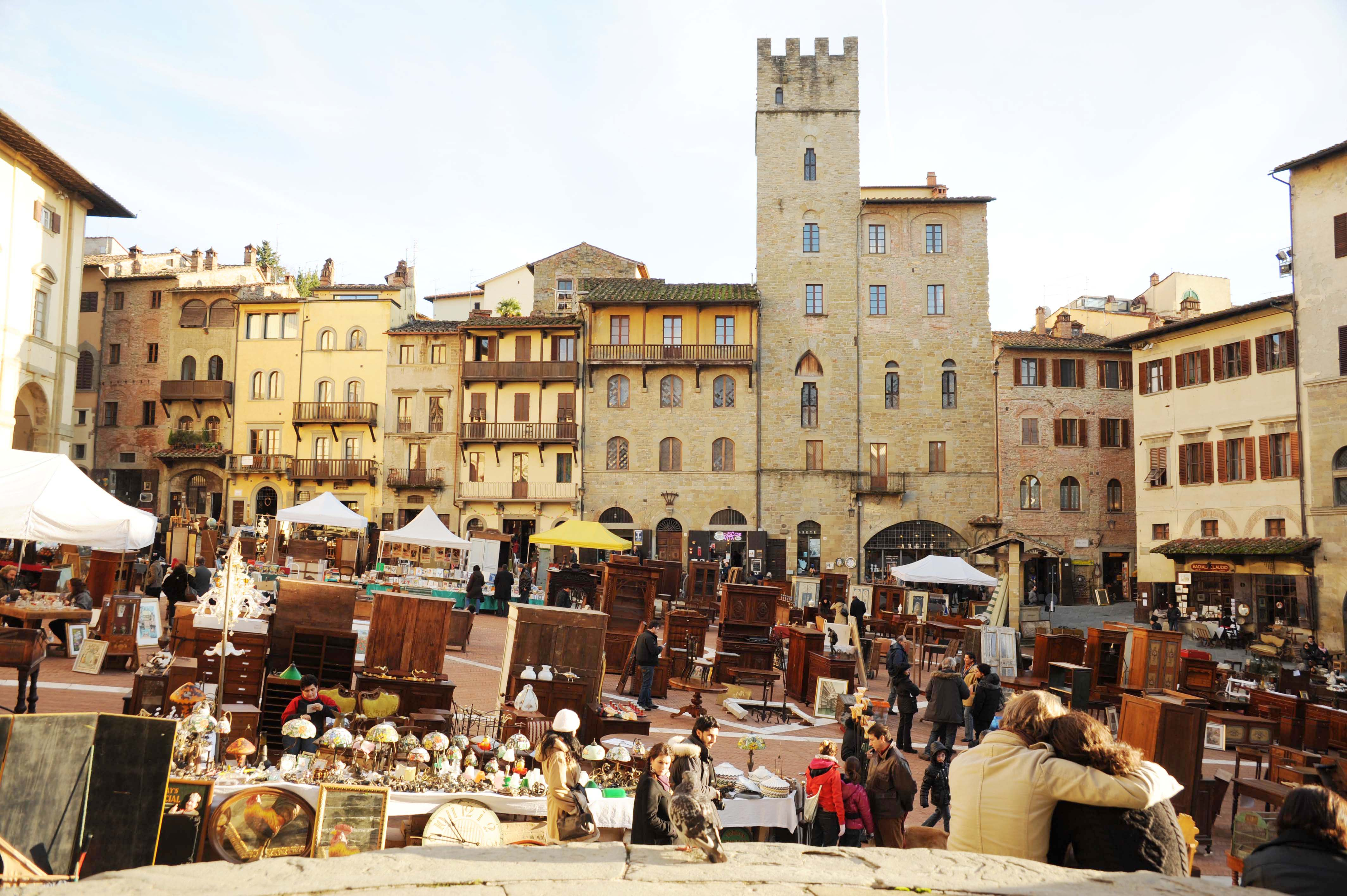 La Fiera Antiquaria in Piazza Grande ad Arezzo